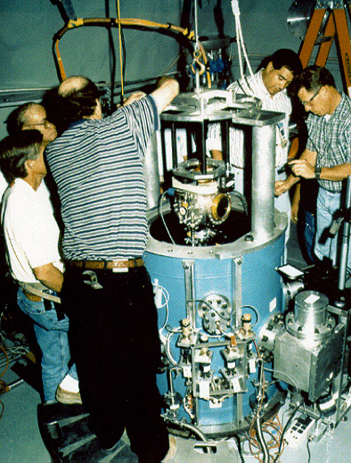 Nevada Test Site. LLNL subcritical experiment.